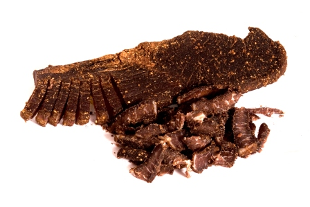 Beef biltong is a traditional South African delicacy of dried meat. This is an image of food from South Africa